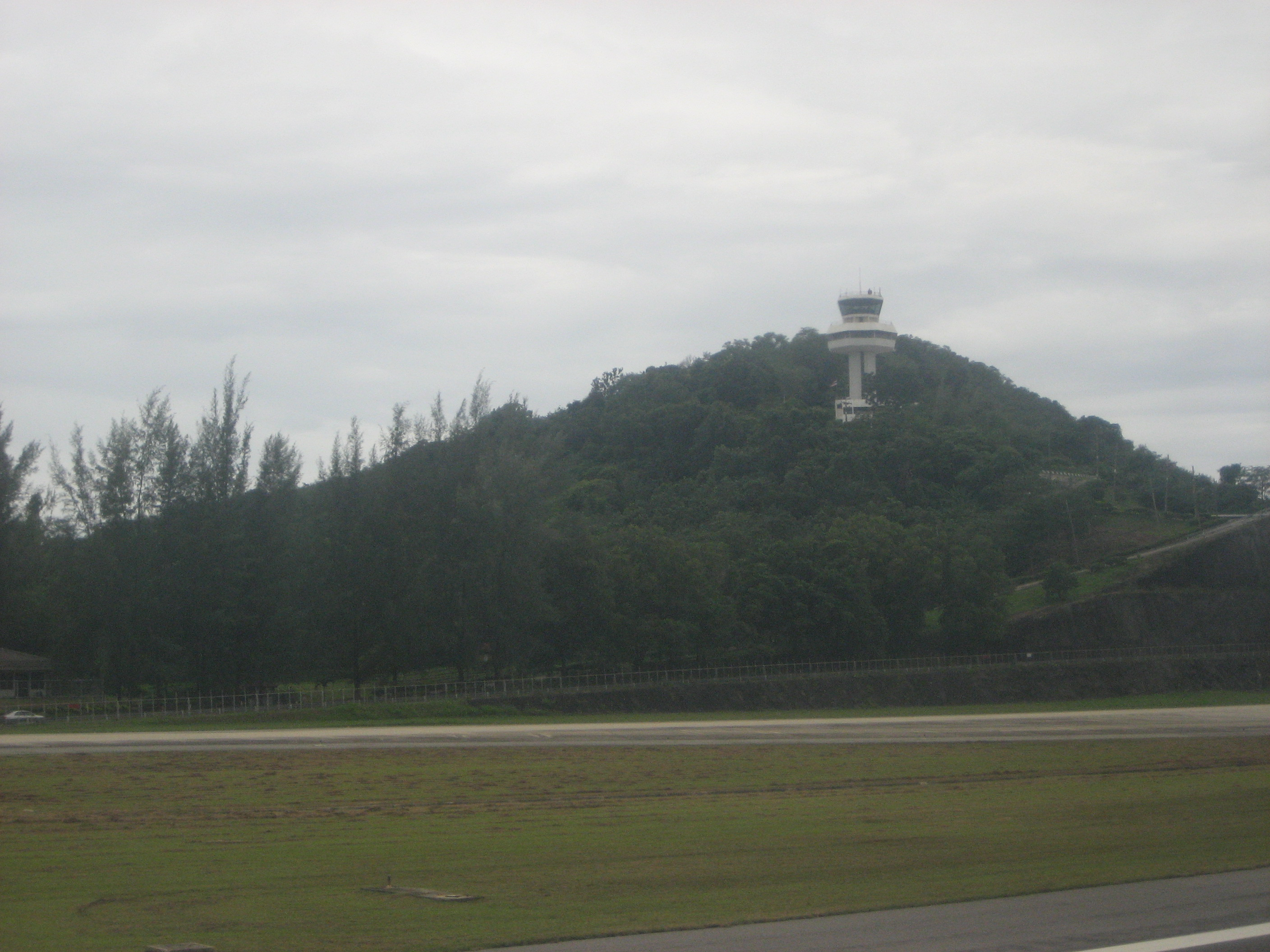 phuket international airport control tower